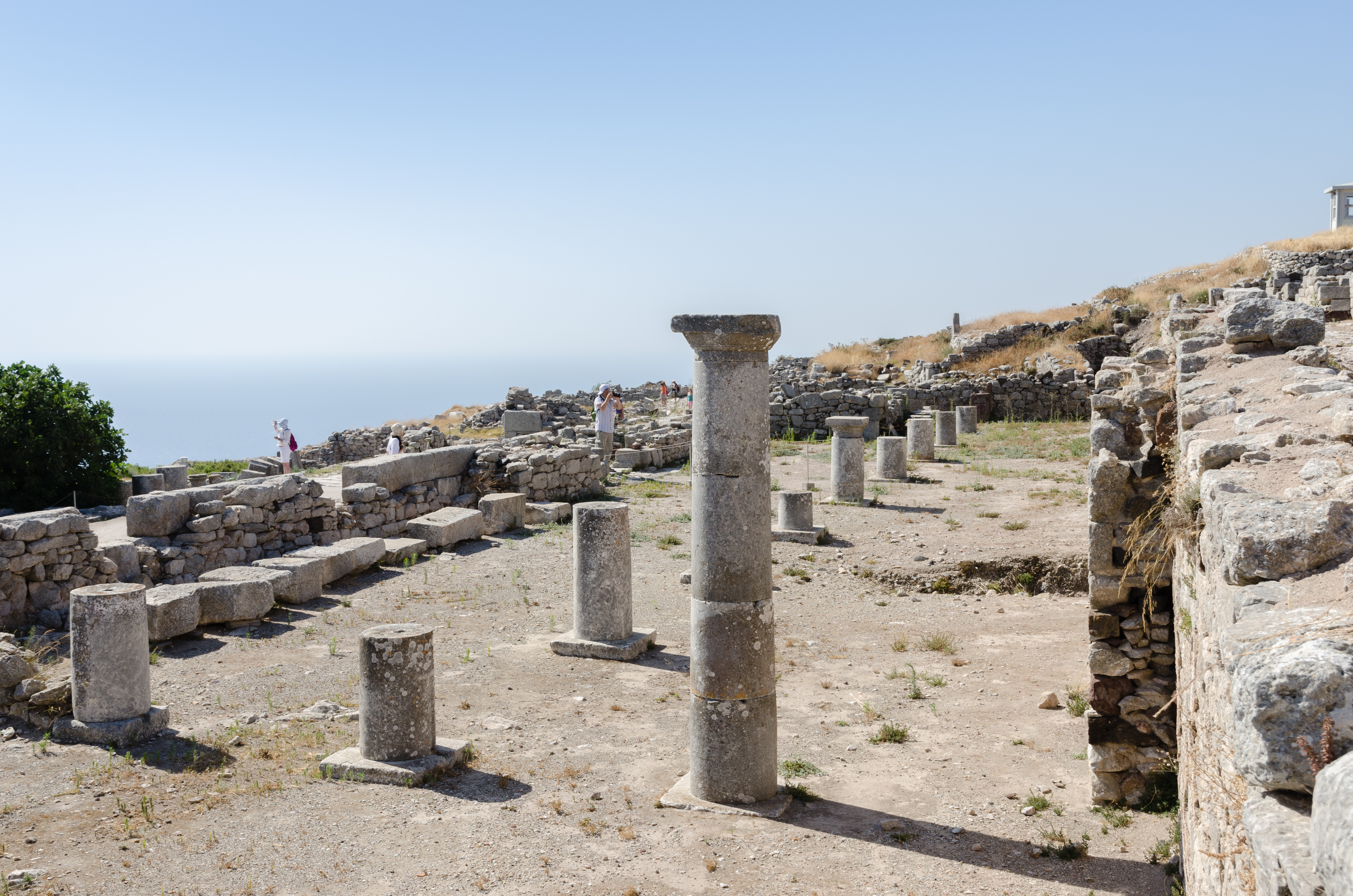 Basilike Stoa, ancient Thera, Santorini, Greece.